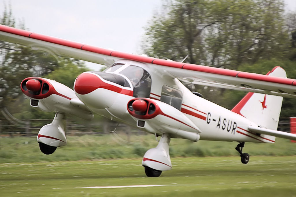 Dornier Do 28A-1. A brown trouser moment for the pilot of this Skyservant as crosswind hampers his take-off.